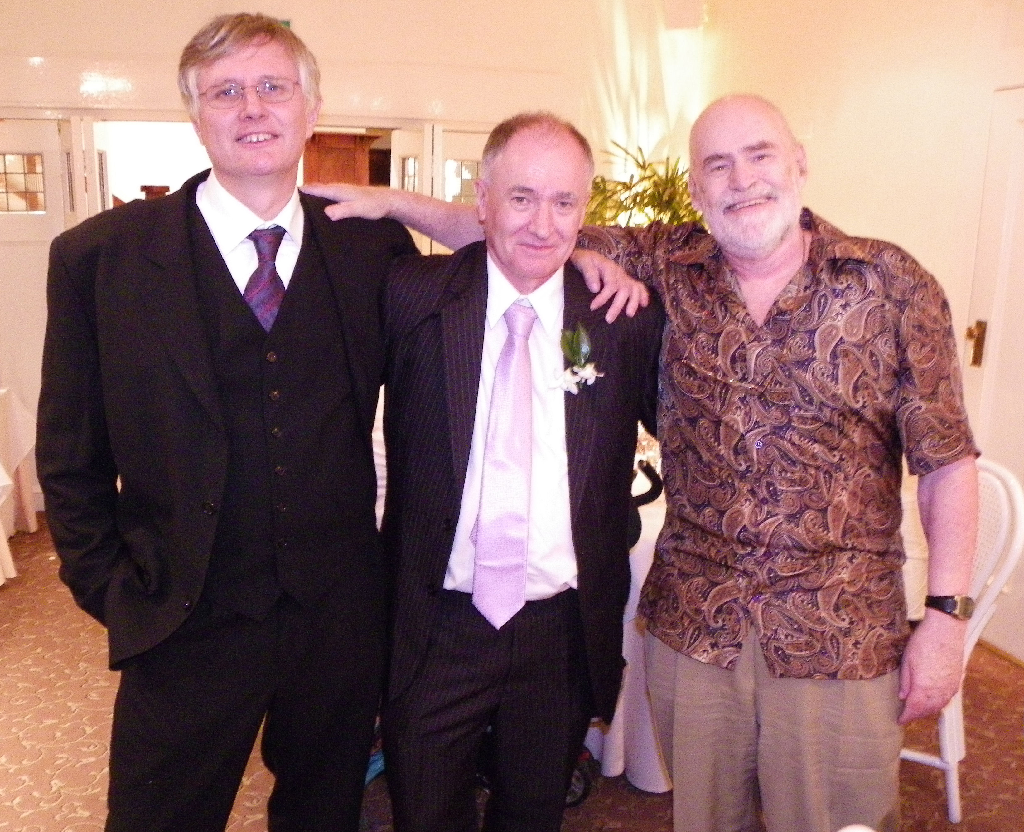 Gregor Whiley, Roger Keating, Ian Trout in 2010